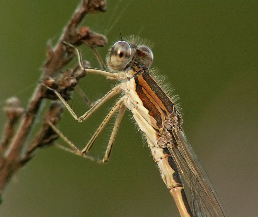 Male sympecma fusca in heathland detail